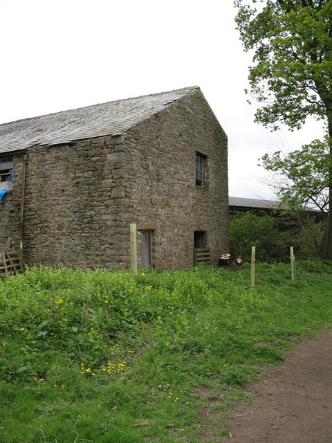 The old village mill at Fremington, North Yorkshire, now a barn